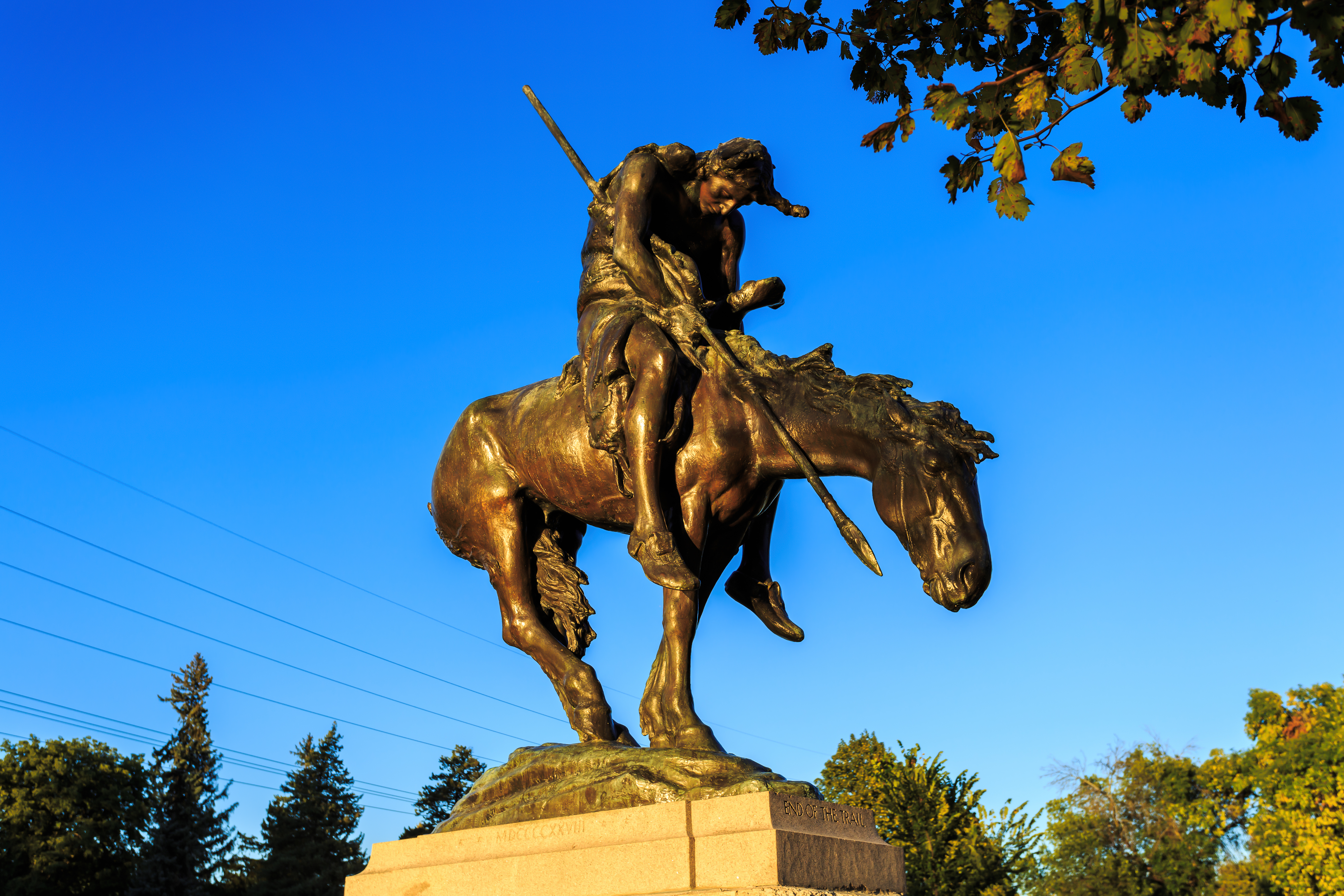 End of the Trail, Madison St. (Shaler Park) Waupun